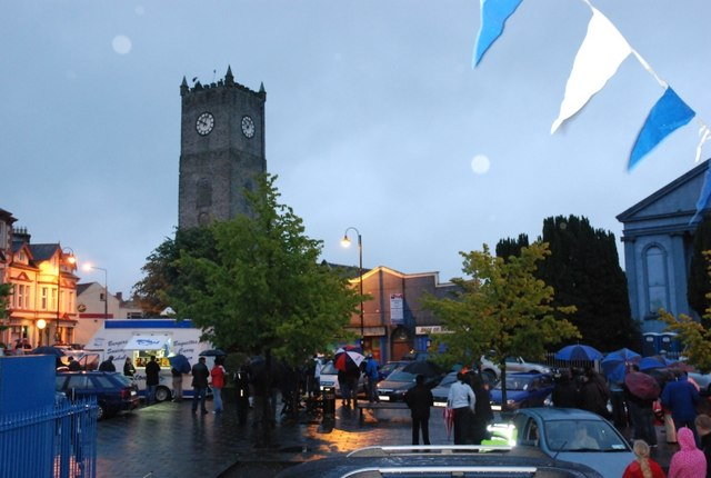 The Diamond, Raphoe, on a Wet Evening This shows Raphoe Cathedral tower in the background in a shot of the Diamond in Raphoe taken on a wet evening during a festival. The Diamond is not in fact a diamond but a triangle.